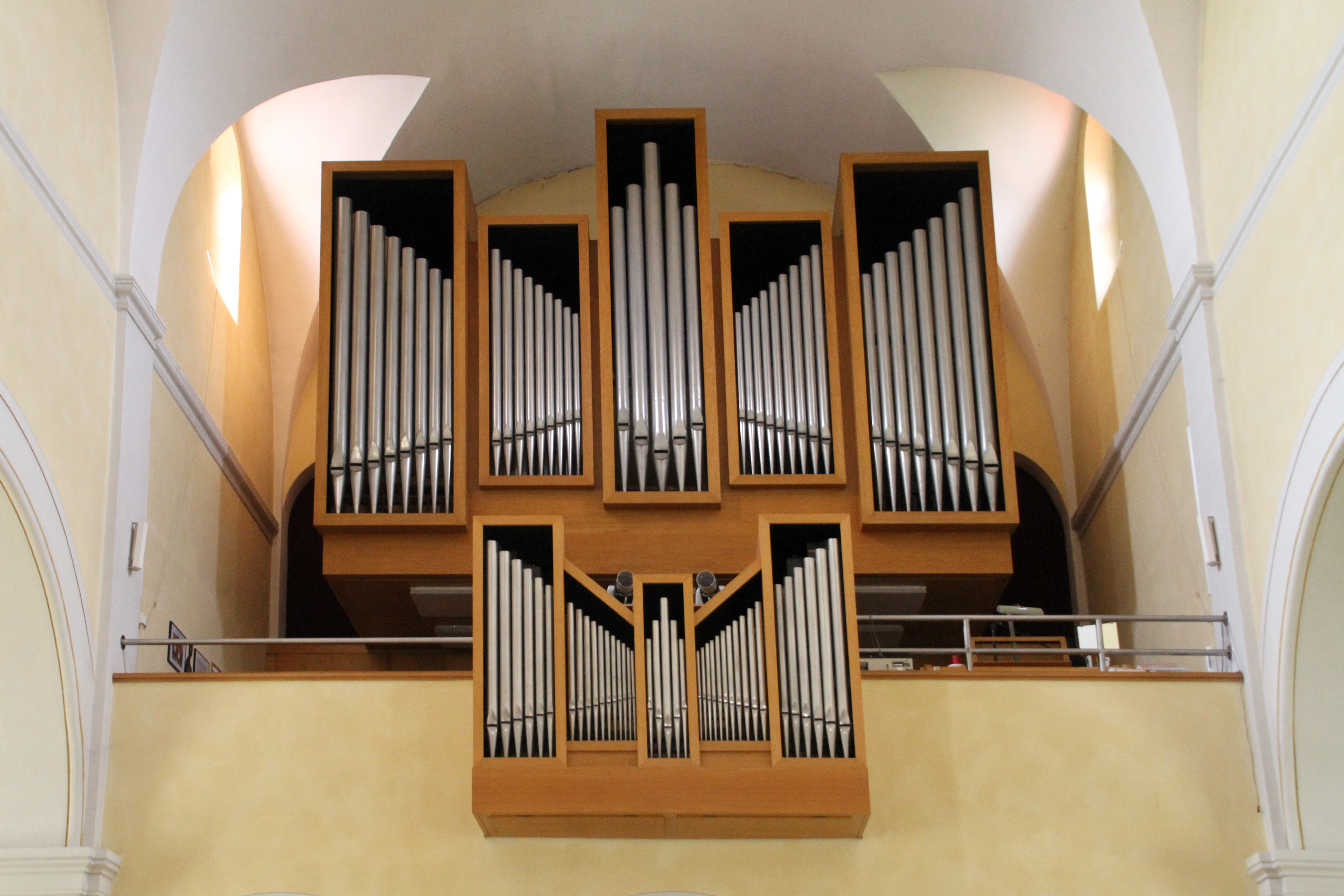 Church of St. Laurentius in Hügelsheim/Landkreis Rastatt, interior decoration.